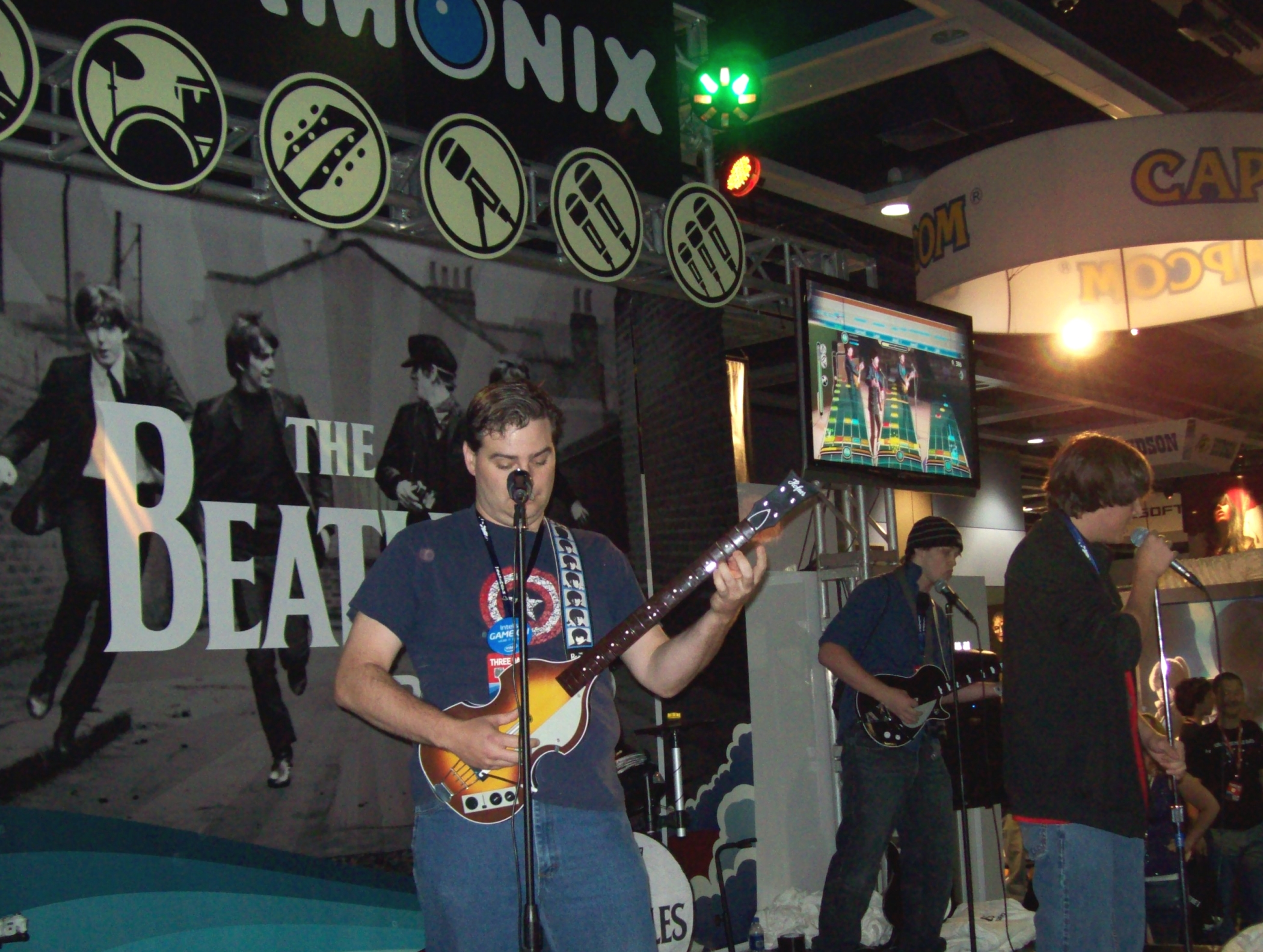 Three people playing video game The Beatles: Rock Band at the Penny Arcade Expo in Seattle, Washington, United States.